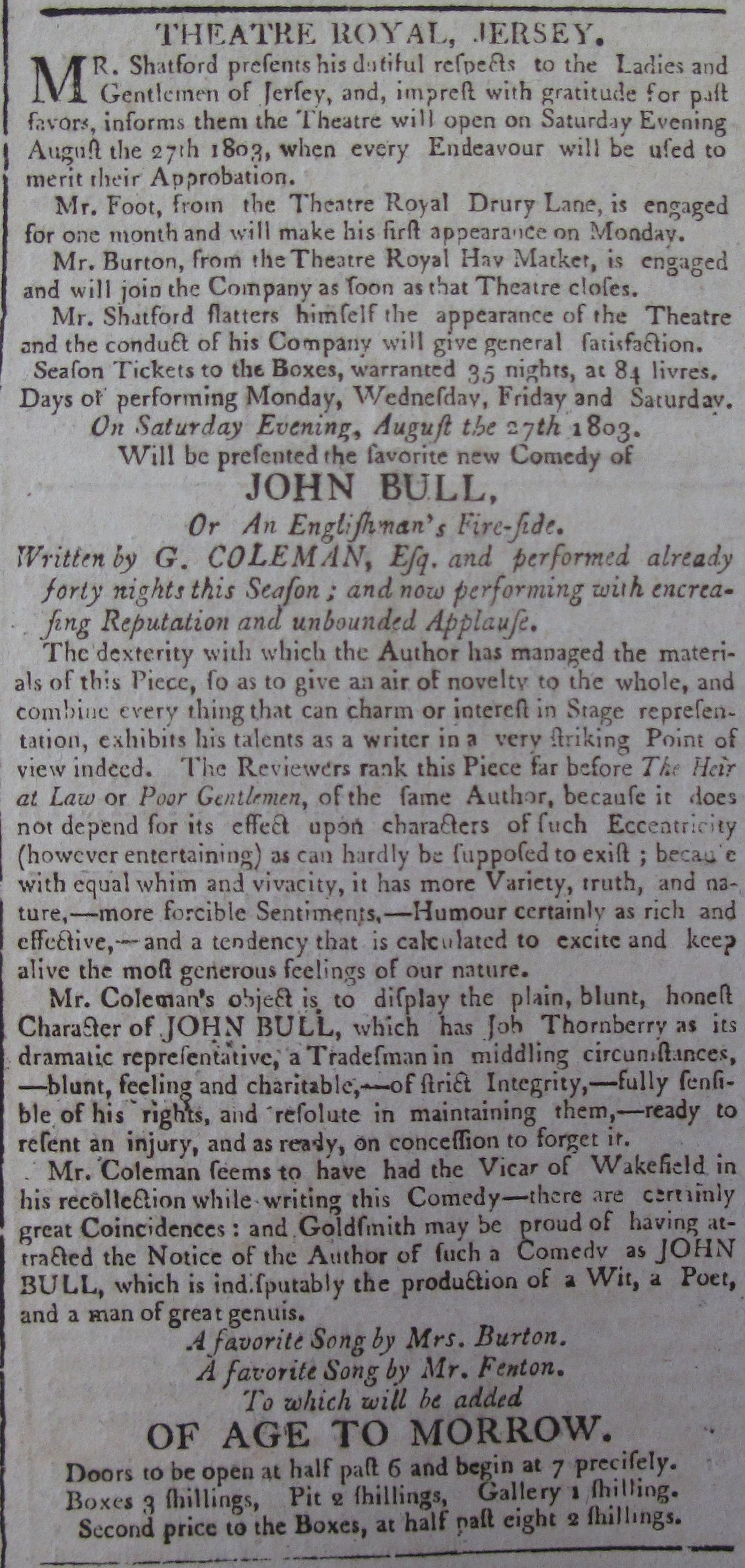 Advertisement for the programme at the Theatre Royal, Jersey: 27 August 1803